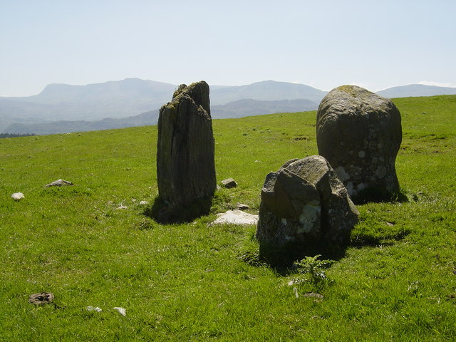 Cerrig Arthur stone circle. Just three stones, so perhaps more a triangle than a circle. In the background is Cadair Idris, which some claim translates as Arthur's Seat.